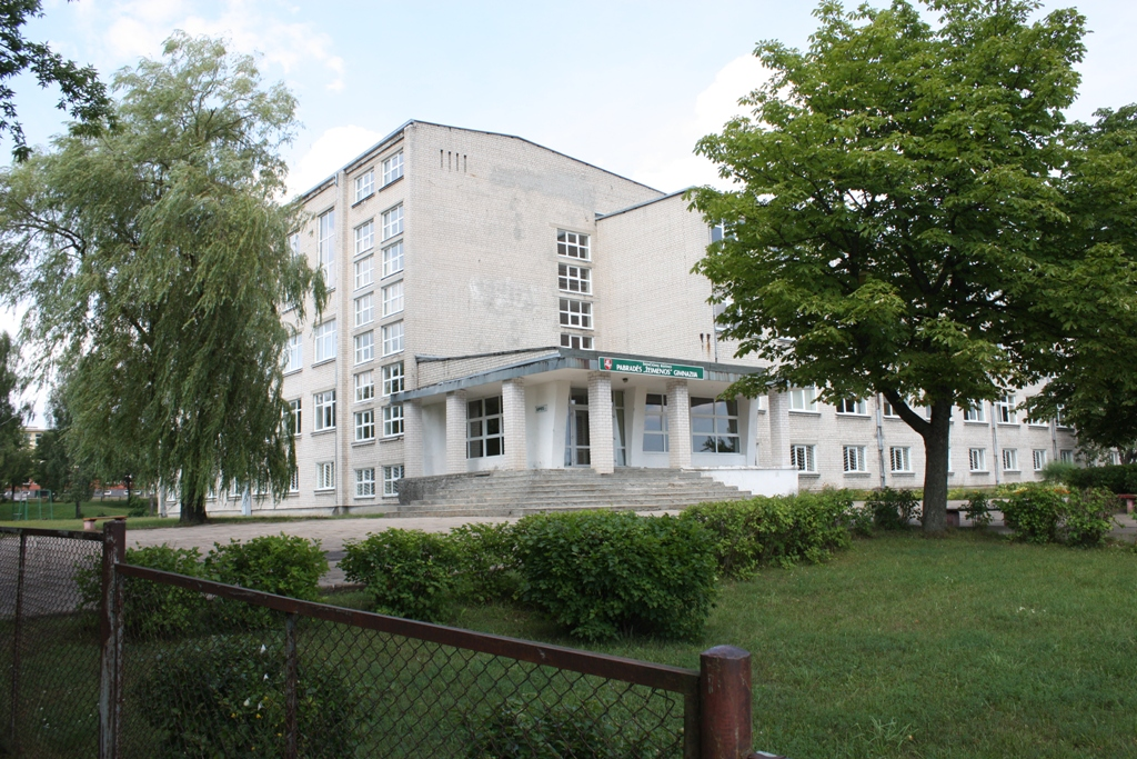 Žeimenos gymnasium in Pabradė, Švenčionys district, Lithuania.